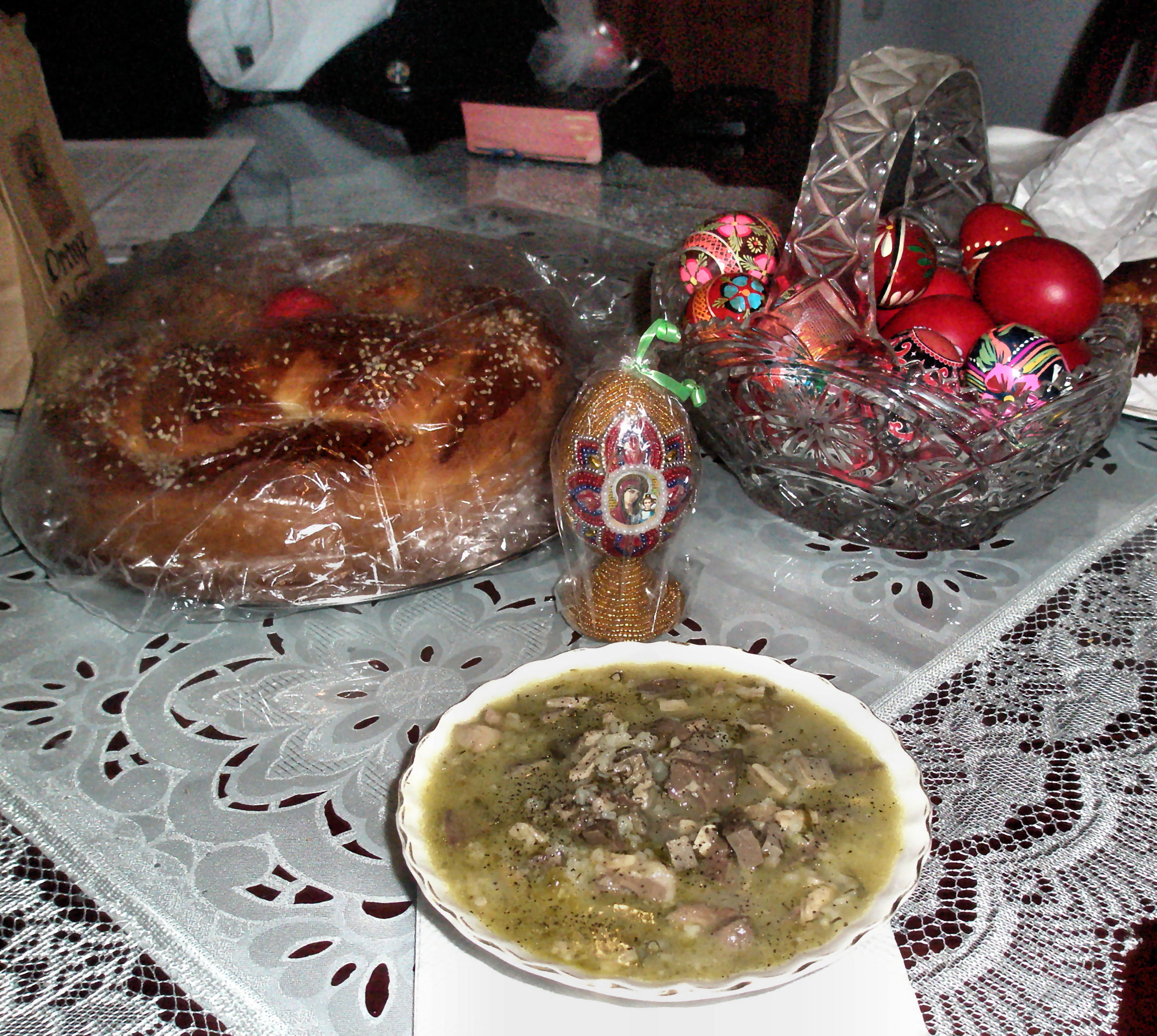 Traditional Greek Orthodox Paschal (Easter) foods, including: Tsoureki (Greek: τσουρέκι), Greek Orthodox Easter sweet bread, a rich, egg-enriched, braided bread. In Byzantine times, it was the custom to bake ring-bread with a dyed red egg in the middle; the egg is a symbol of life, while red is the color of life. Magiritsa (Greek: μαγειρίτσα), a Greek soup made from lamb offal, associated with the Easter (Pascha) tradition of the Greek Orthodox Church. It is made almost universally from any variety of chopped, sauteed innards, herbs and lettuce, and bound with avgolemono, the country's well-known egg-and-lemon sauce. Red Easter Eggs, according to the sacred tradition among Eastern Christianity. Greeks mainly color eggs red (scarlet) to signify the blood of Christ.